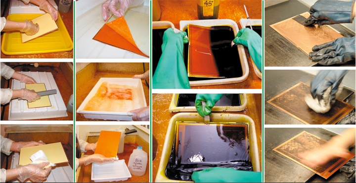 steps involved in making a photogravure plate